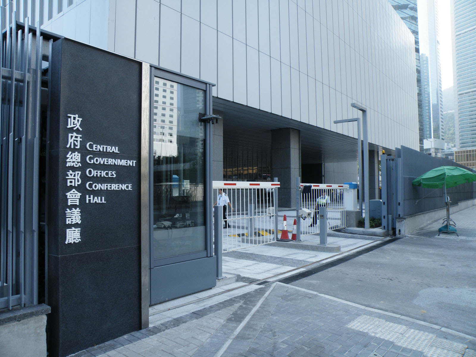 Central Government Offices, Tamar, Hong Kong